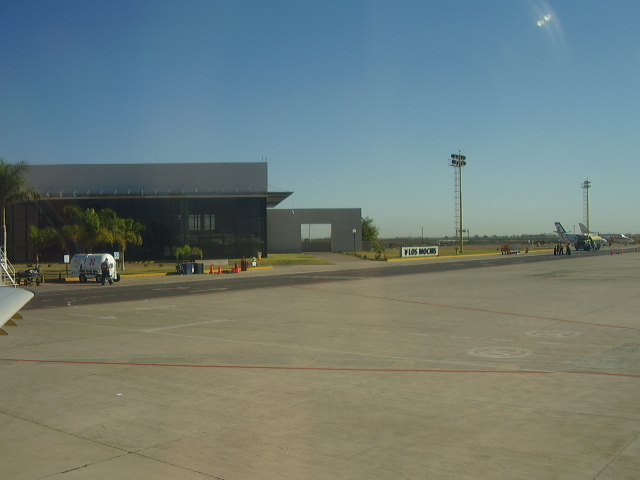 Los Mochis Intl. Airpt.